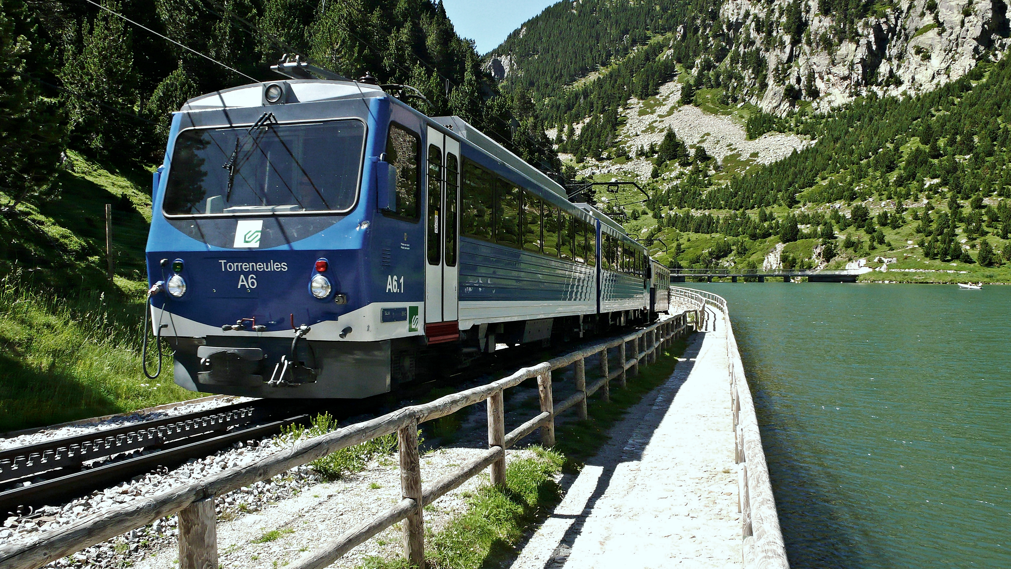 The Vall de Núria Rack Railway running next to the reservoir at the Vall de Núria, in the Pyrenees.